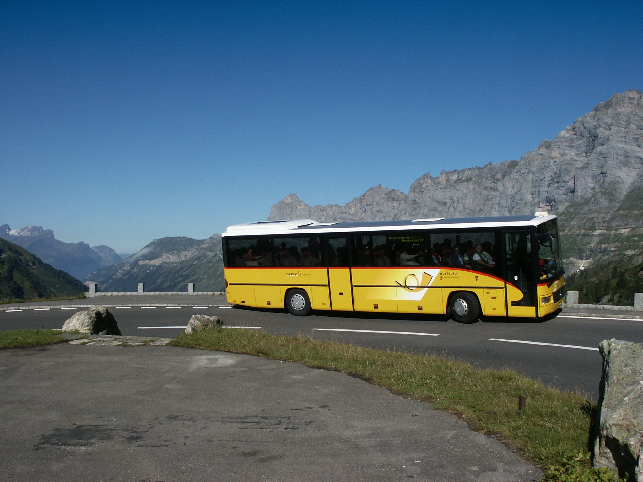 Switzerland, Sustenpass, Susten pass route, Postauto, Swiss Postal Bus